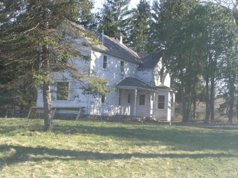 Arthur Wahl House, Swedish Heritage District, Porter, Indiana